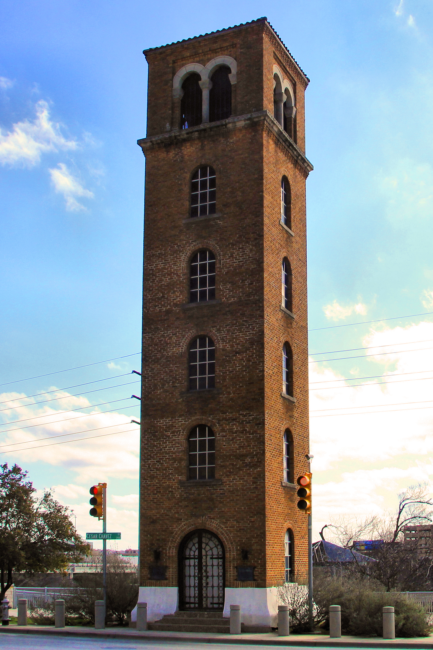 Buford Tower in Austin, Texas, United States. The tower was listed on the National Register of Historic Places on October 11, 2016